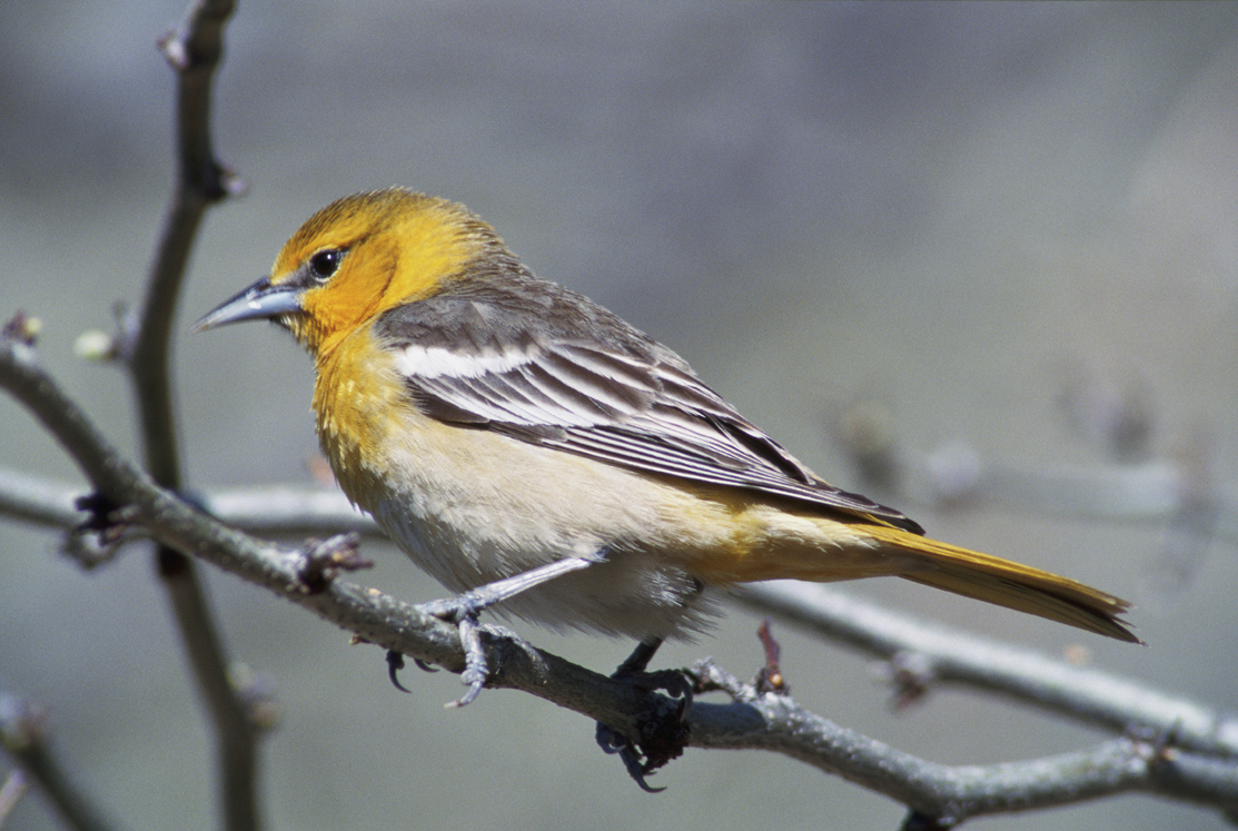 Baltimore Oriole (Icterus galbula) female